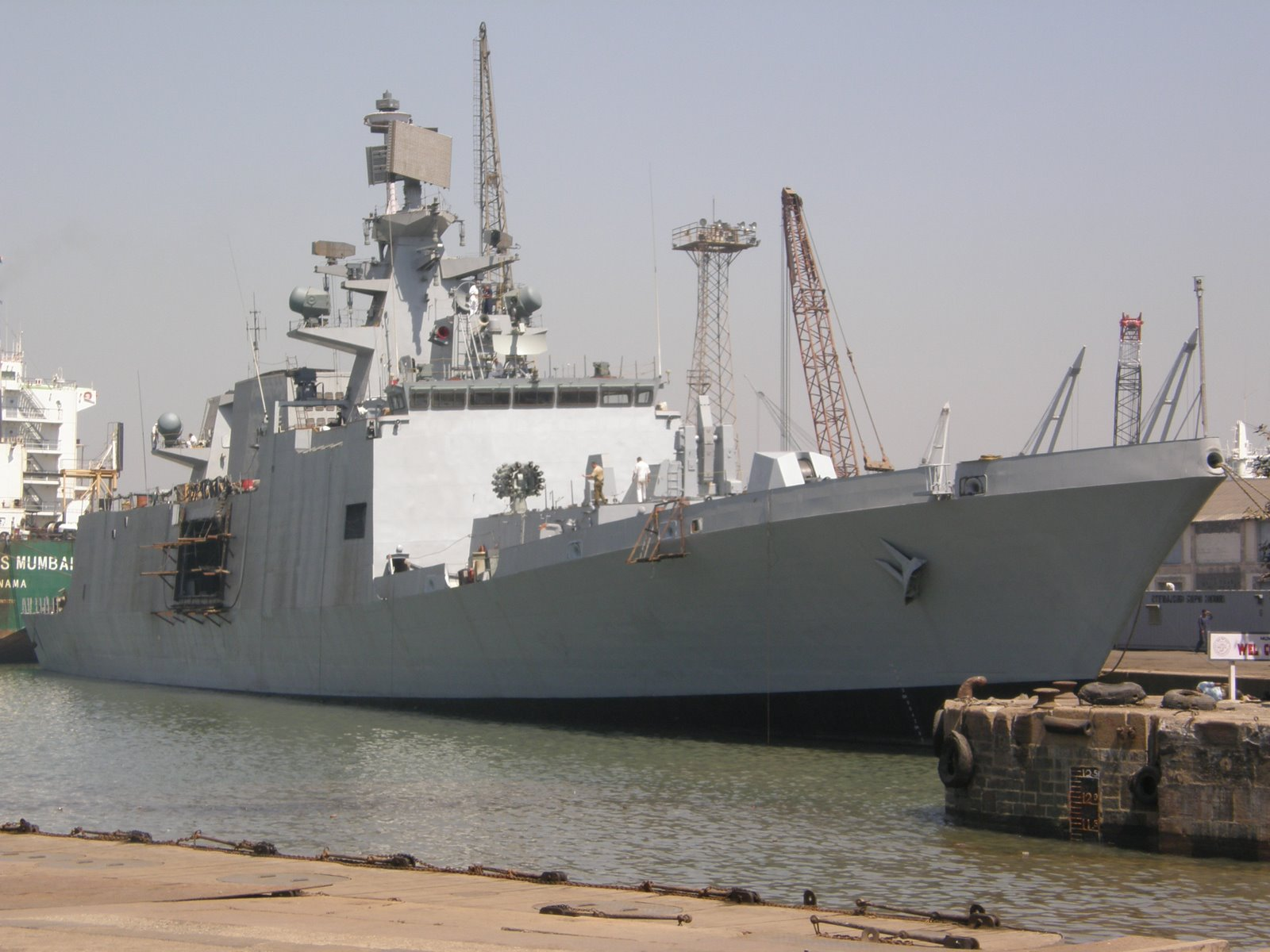 INS Shivalik frigate at Mazagon Dock Limited prior to commissioning.